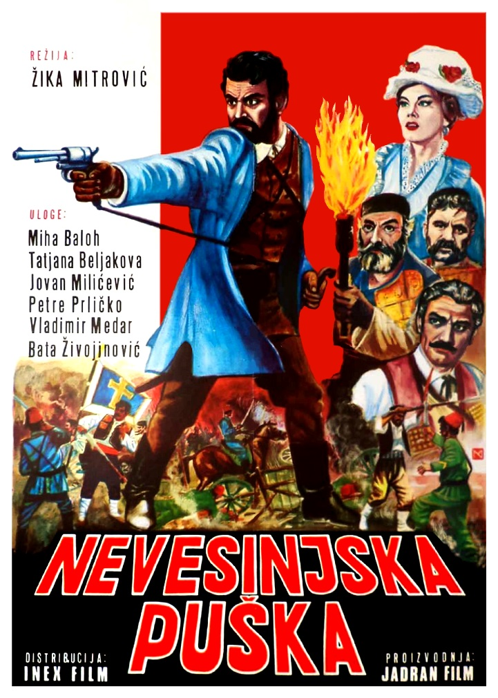 Restored Movie Poster for Nevesinjska Puška